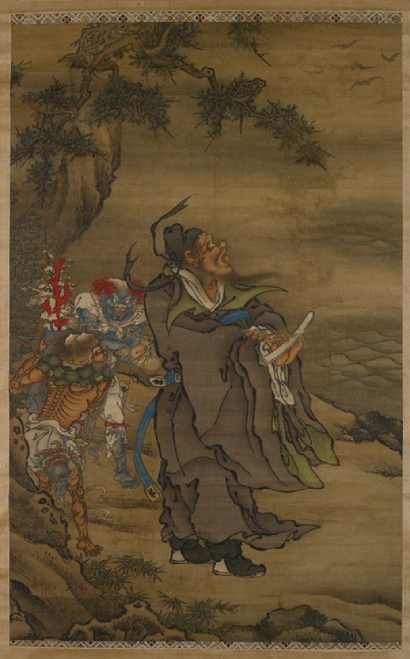 "Zhong Kui, the Demon Queller, has been a popular subject in figure painting from as early as the Tang dynasty (AD 618-907). The early Zhong Kui portraits were hung at the end of the year to drive away evil spirits. The pine trees, rocks, and river in this painting imply that Zhong is standing in a winter forest, common within early depictions. From around the 15th century, however, Zhong is depicted as a demon queller and bringer of fortune, and imagery in this painting also links him to this new role. For example, a vase held by two demons represents peace, the red coral branch inside wealth, and the fungi at the demon’s waist longevity. The five bats refer to the five blessings: longevity, wealth, health, virtue, and a graceful death. Zhong, holding his jade sceptre, looks up into the sky as if calling to the bats, originally considered as assistants to Zhong because of their ability to search for hidden demons in the dark. New Year Pictures are still hung both to drive away demons and bring good luck, and often feature the Demon Queller." —Ashmolean Museum